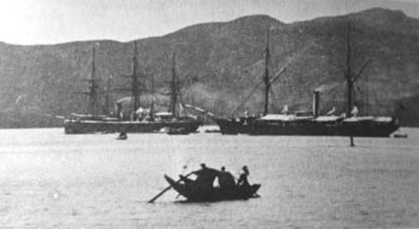 Chinese_fleet_at_anchor_the_night_before_the_battle_of_Fuzhou 1884